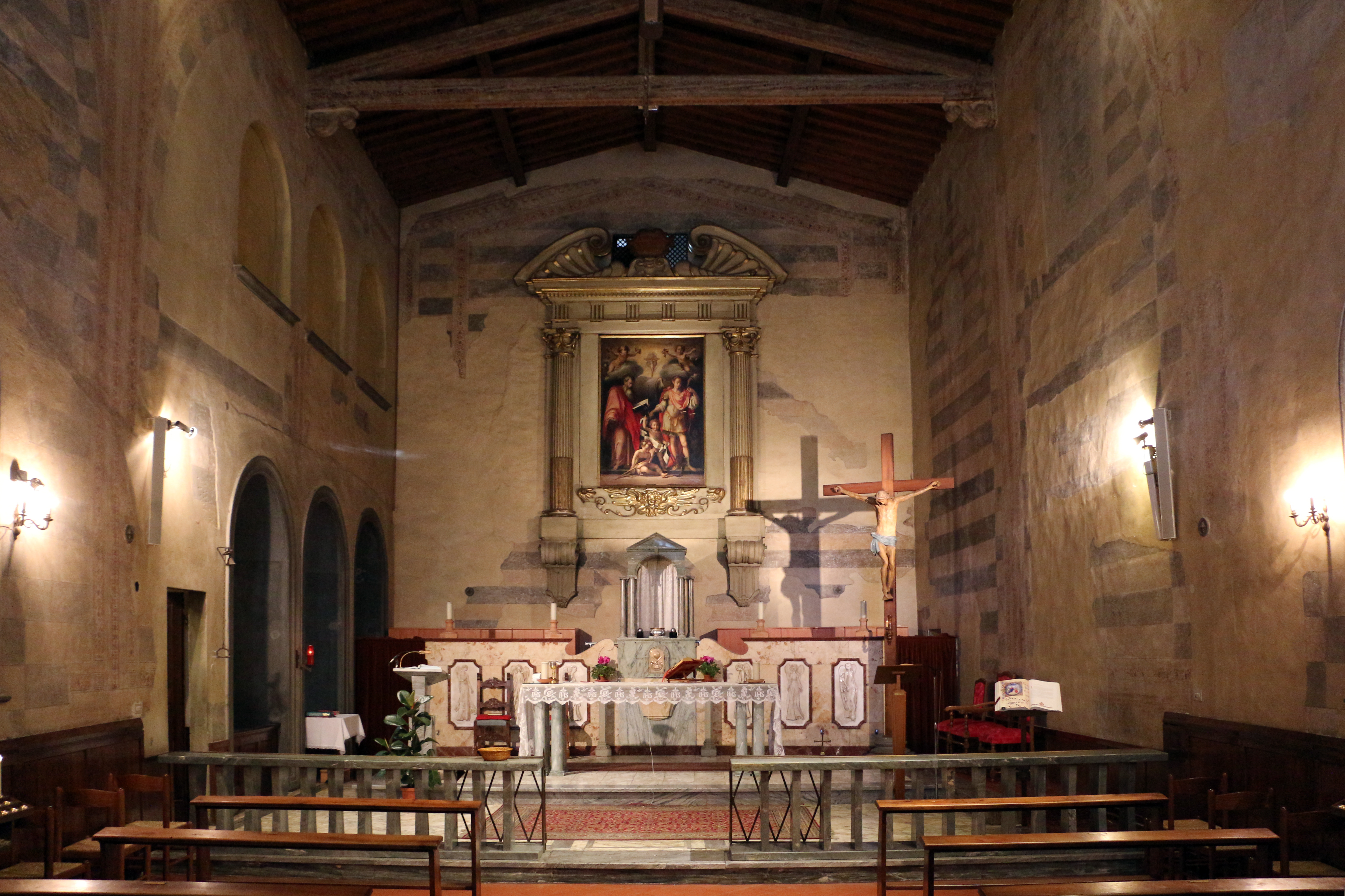 San Giovanni della Calza - Church interior